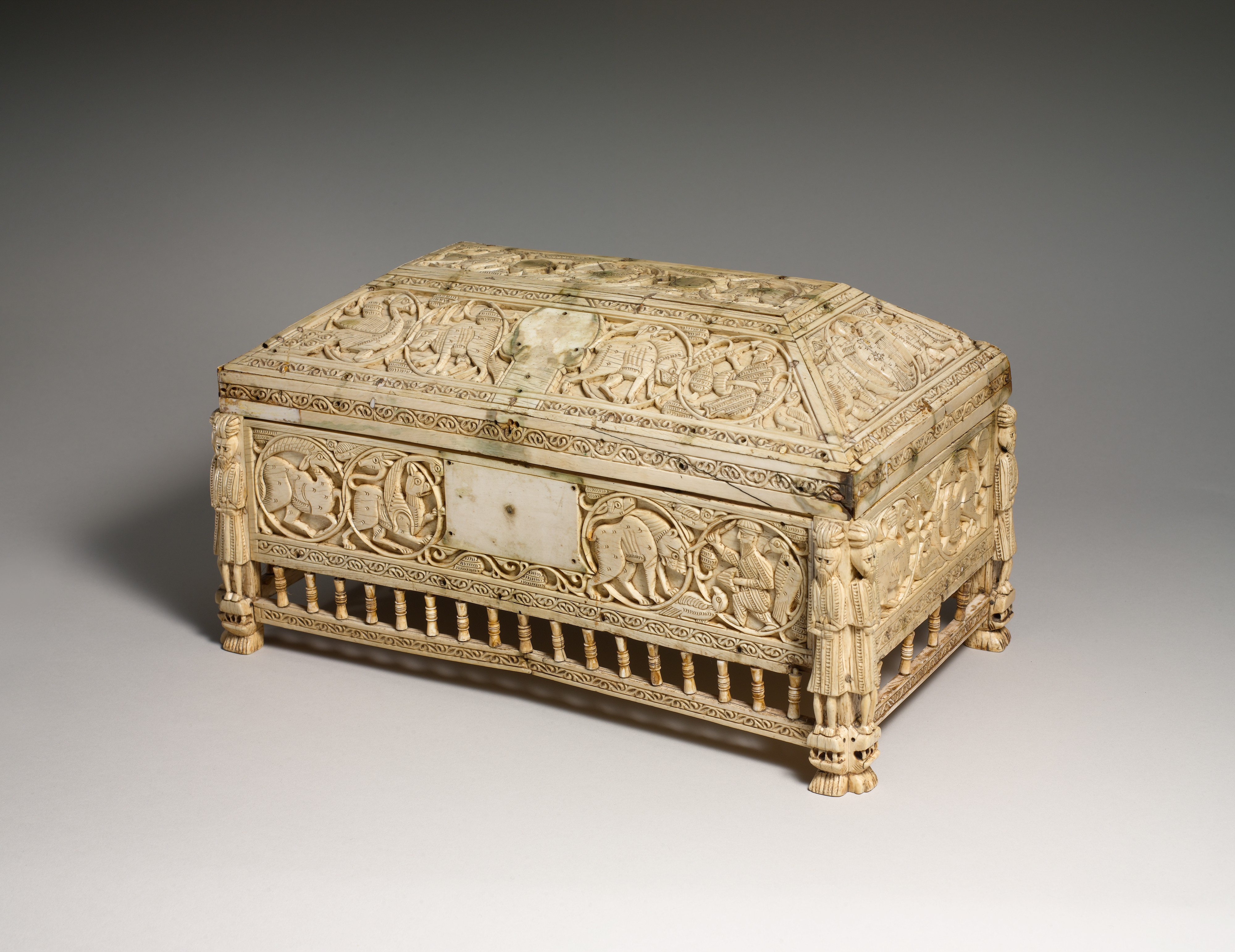 Casket; Ivories and Bone